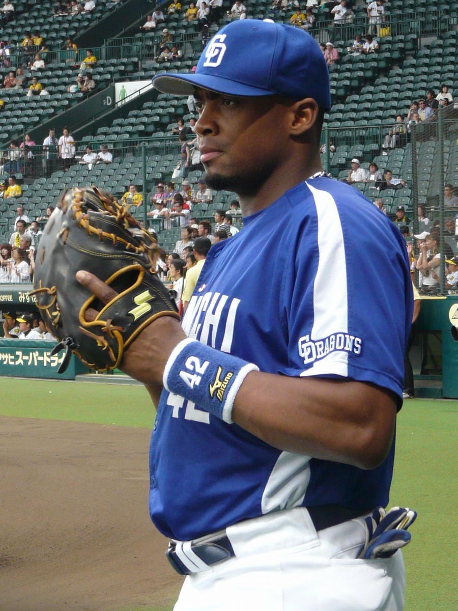 Tony Blanco, infielder of the Chunichi Dragons, at Hanshin Koshien Stadium.